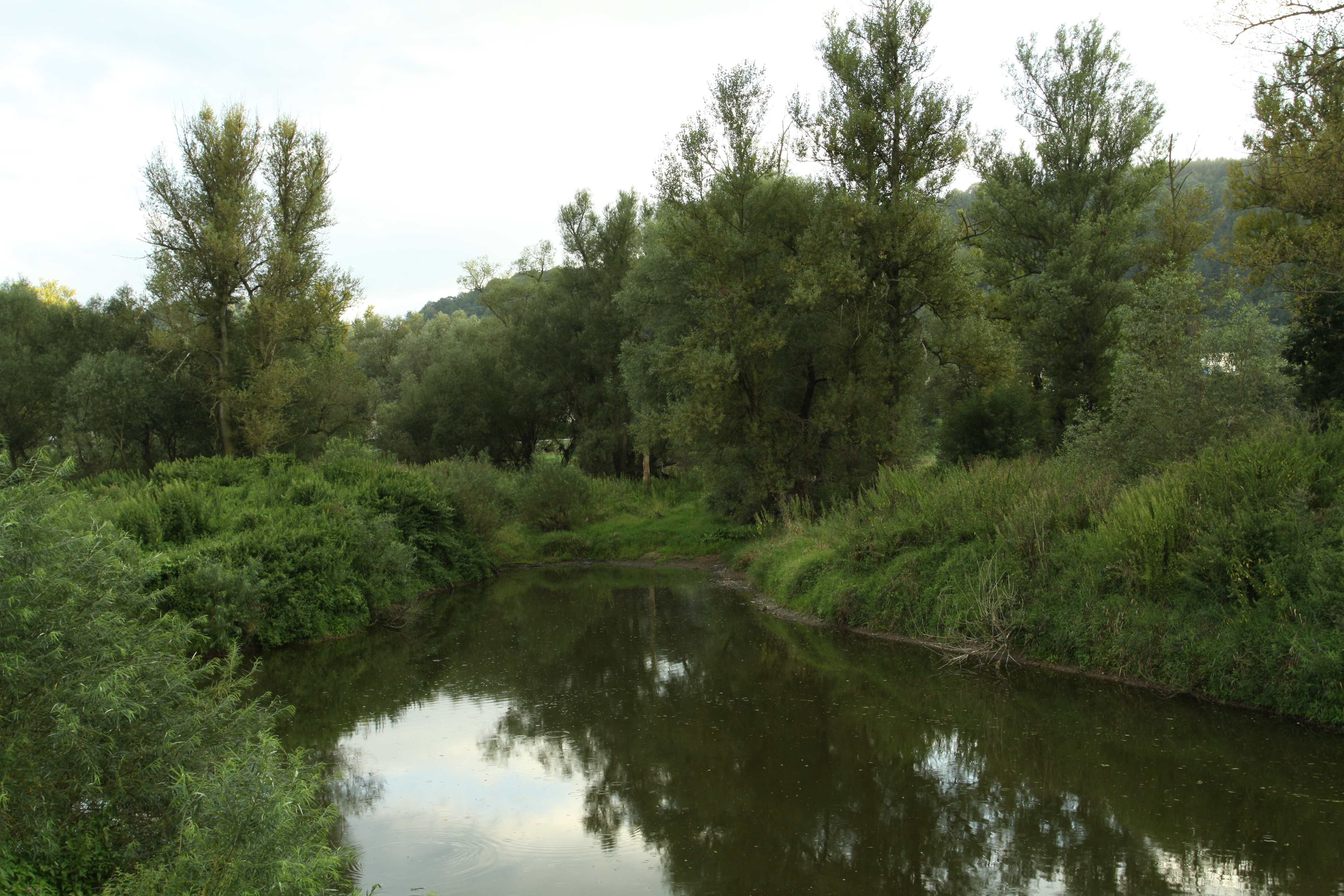 Natural monuments Nebočadský luh southern from Děčín town, Děčín District, Czech Republic - Google Maps - Google Earth